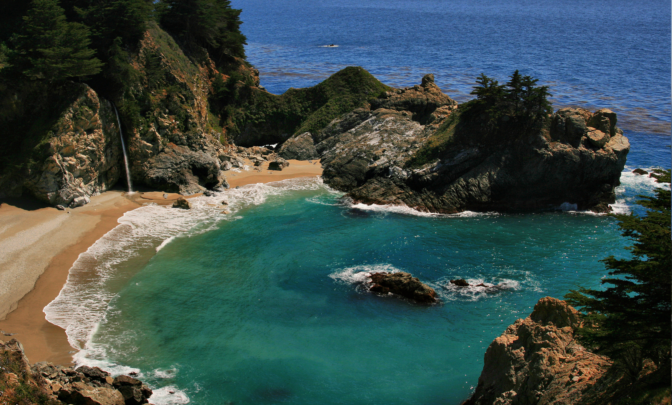 McWay Cove at Julia Pfeiffer Burns State Park